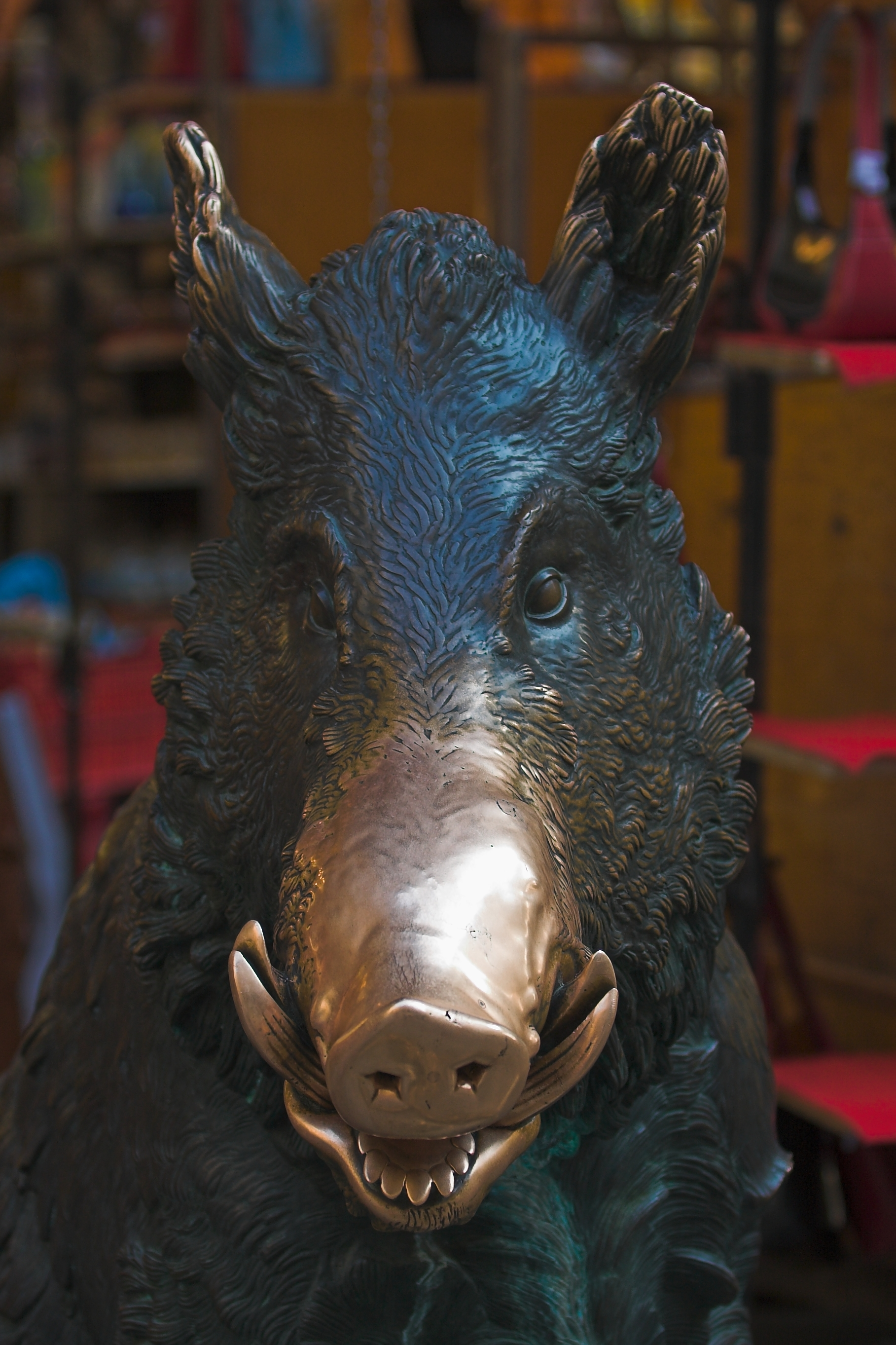 Florence. Fine bronze statue copy of an ancient Greek work - "Il porcellino" ("little pig", actually a boar), by XVIIth century sculptor: Pietro Tacca, (1577-1640).